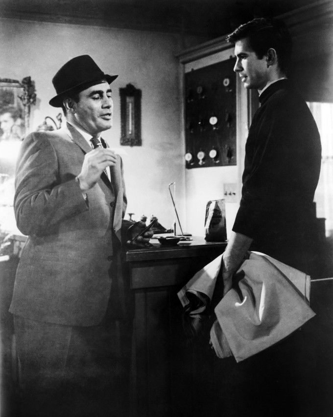 Martin Balsam & Anthony Perkins in 1960 film Psycho